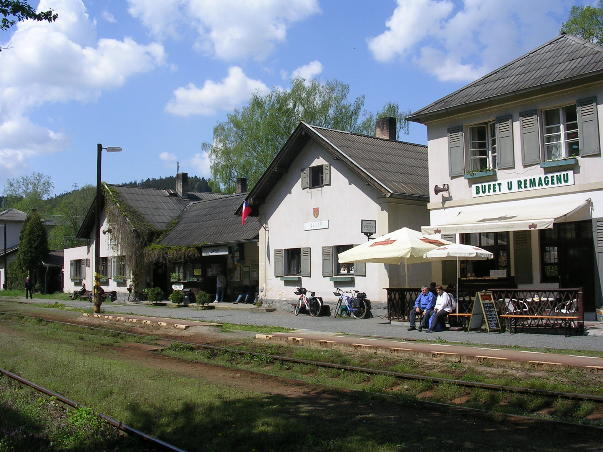 Davle, the Czech Republic. Train station.